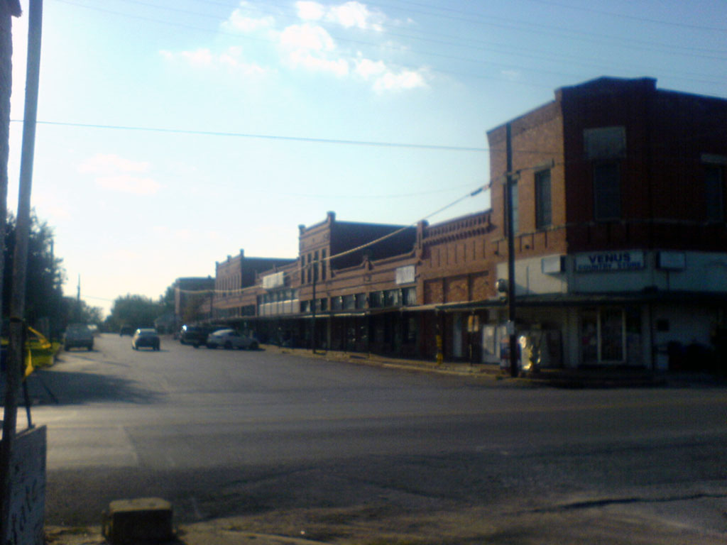 A row of buildings in downtown Venus, Texas. Photo by Danny Burton, 11/04/07.